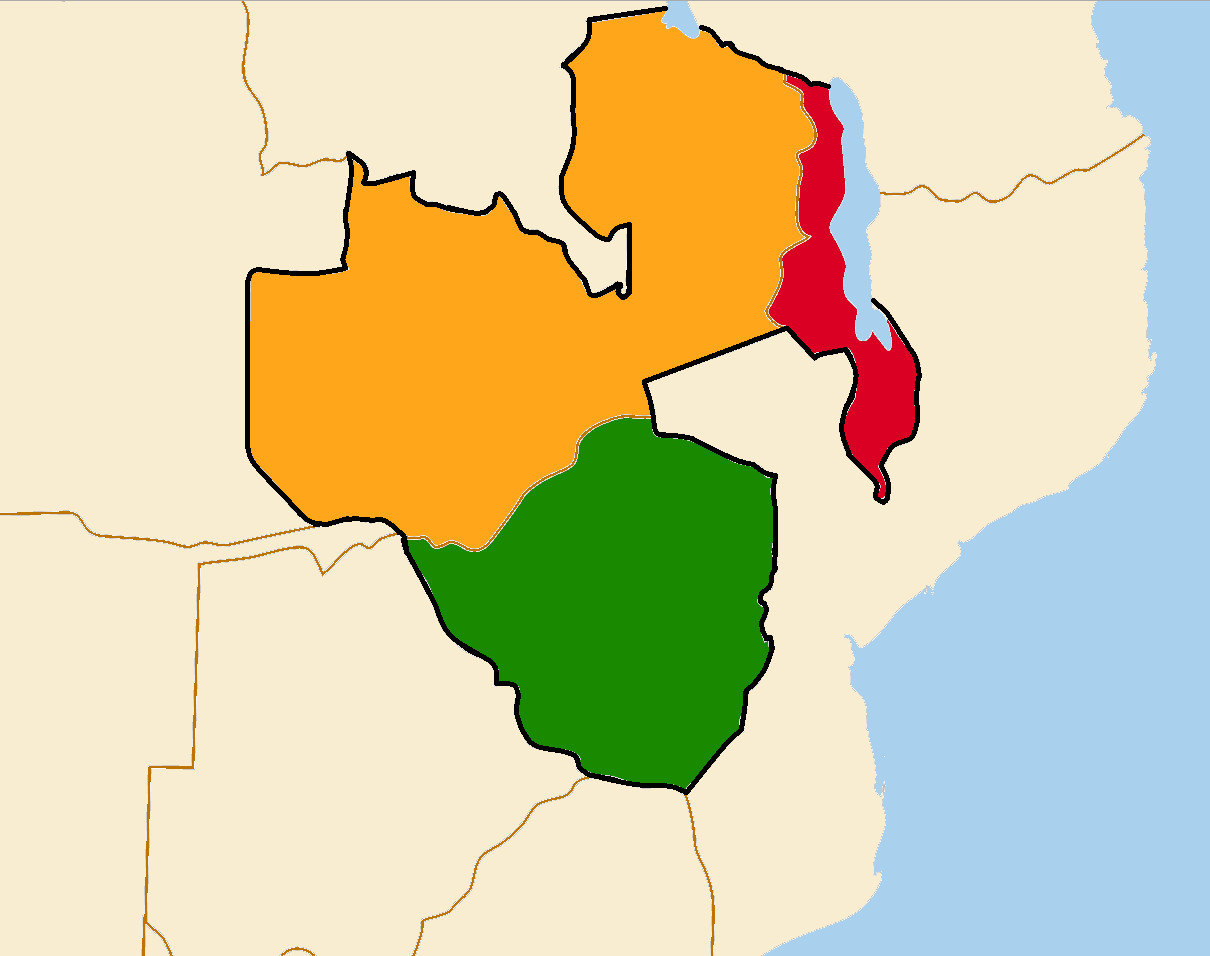 Nyasaland Northern Rhodesia Southern Rhodesia Borders of Federation